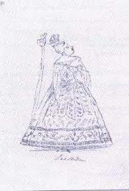 Caricature of Anna Maria Strada, 18th century opera singer